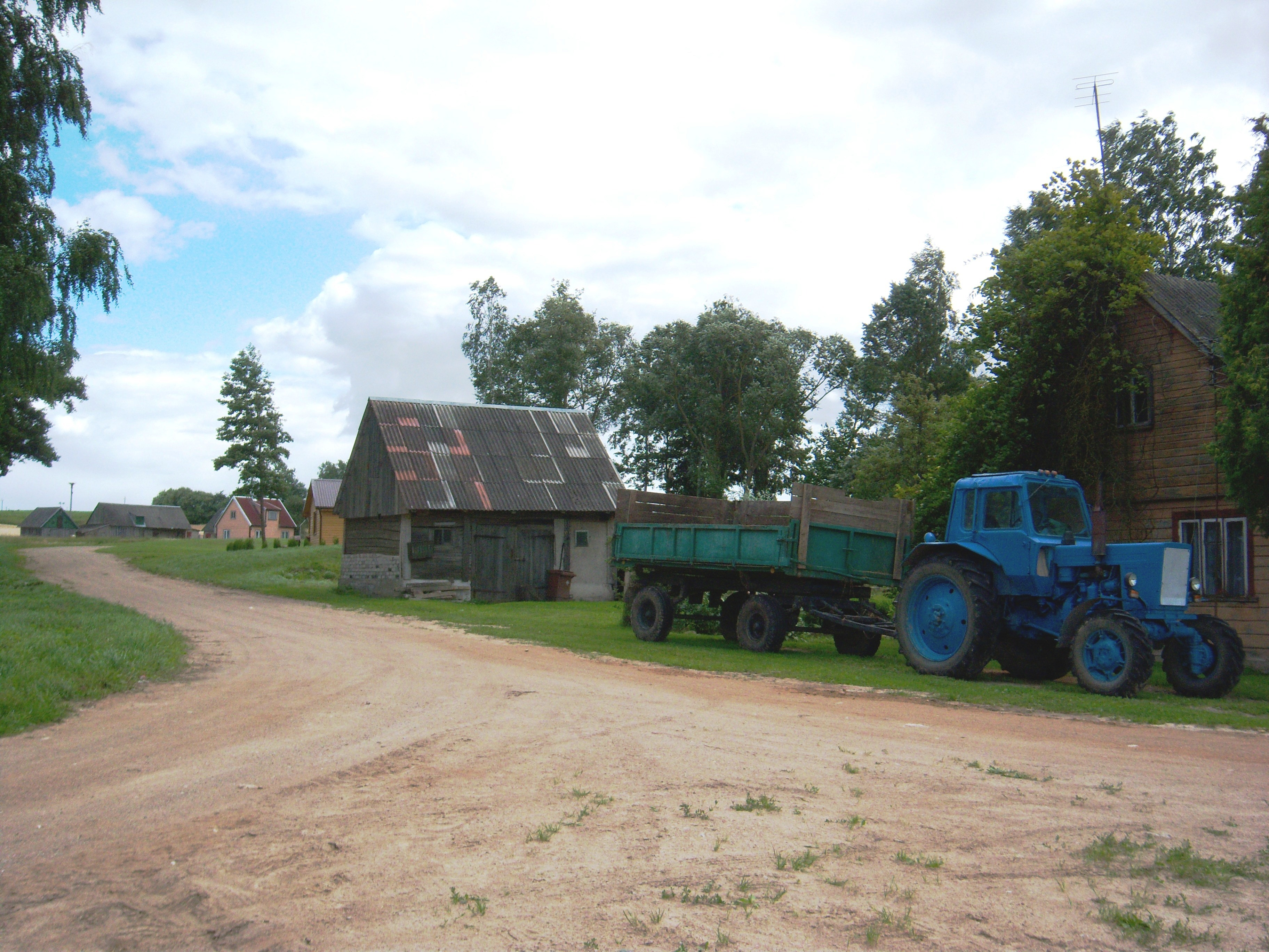 Palendriai, Raseiniai District. Lithuania